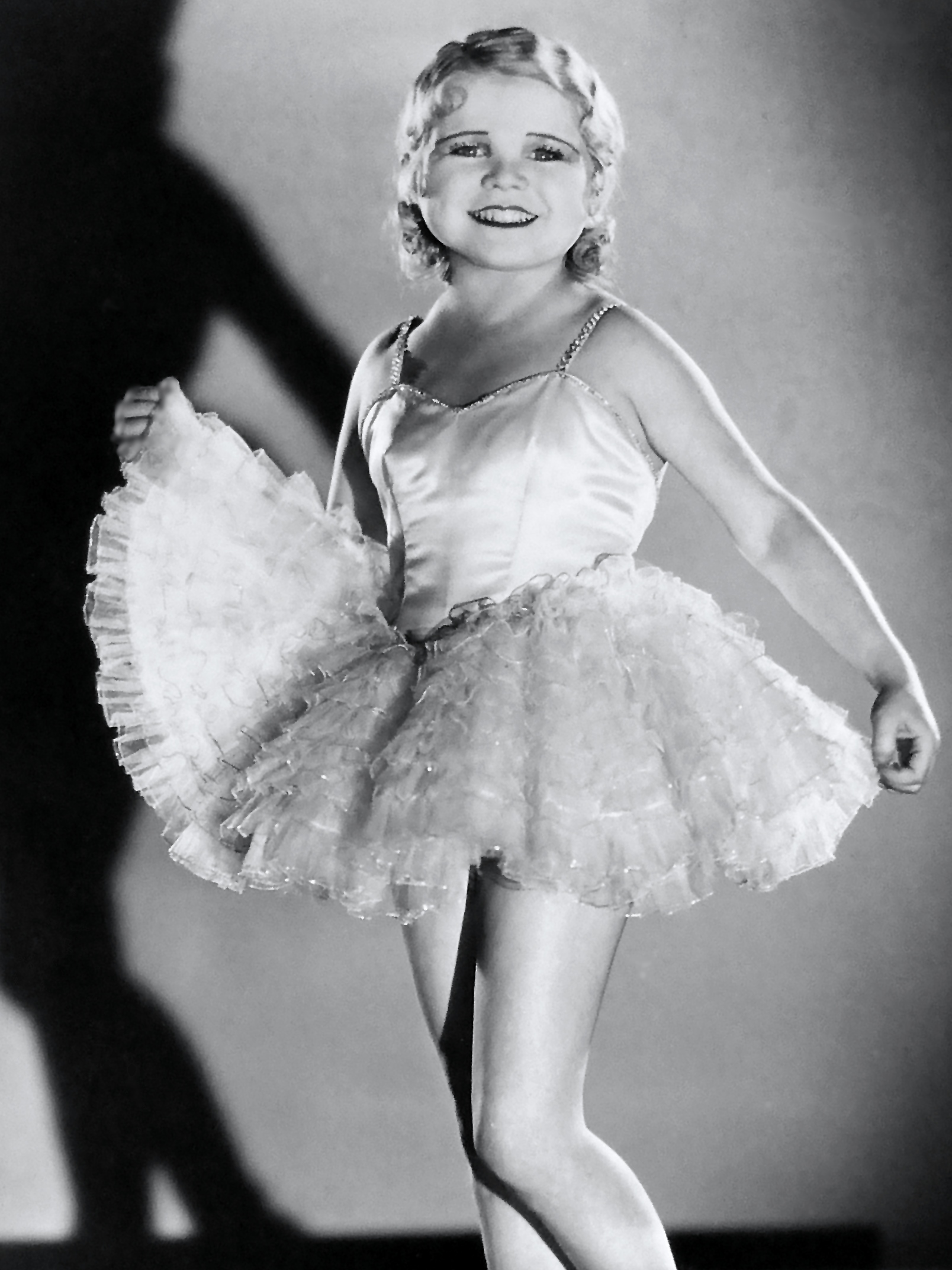 Daisy Earles in a scene from the film Freaks, 1932